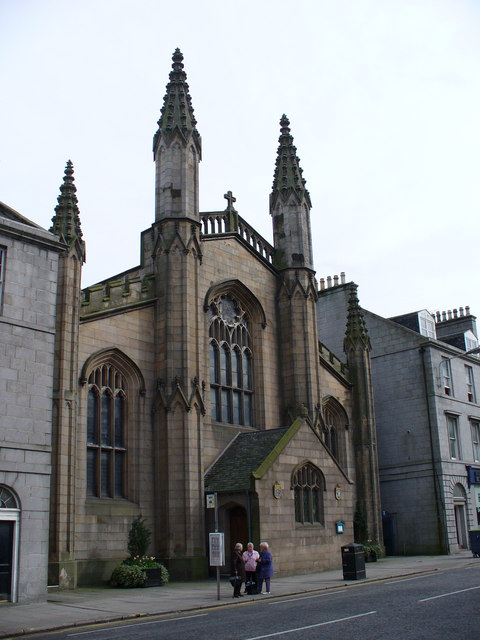 St Andrew's Cathedral This is one of Aberdeen's three cathedrals. It is at the foot of King Street and was designed by Archibald Simpson in 1816, in perpendicular style. This Episcopalian cathedral is also the mother church for USA episcopalians. It is not granite, but Craigleith sandstone.